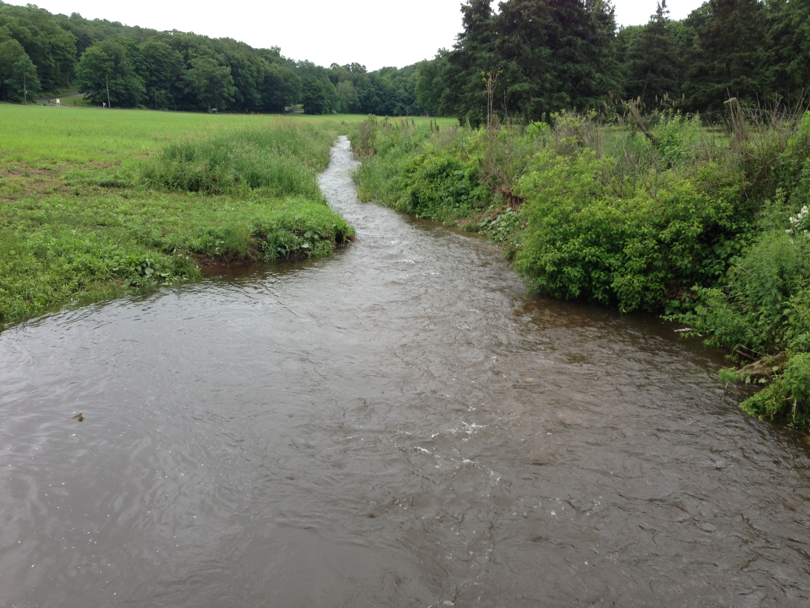 Photo of the Coginchaug River, 1.8 miles from its source, at the line between Guilford, CT (New Haven County) and Durham, CT (Middlesex County), 200 yards west of Rt 77. It was taken purposefully for posting a picture of the Coginchaug River on Wikipedia.